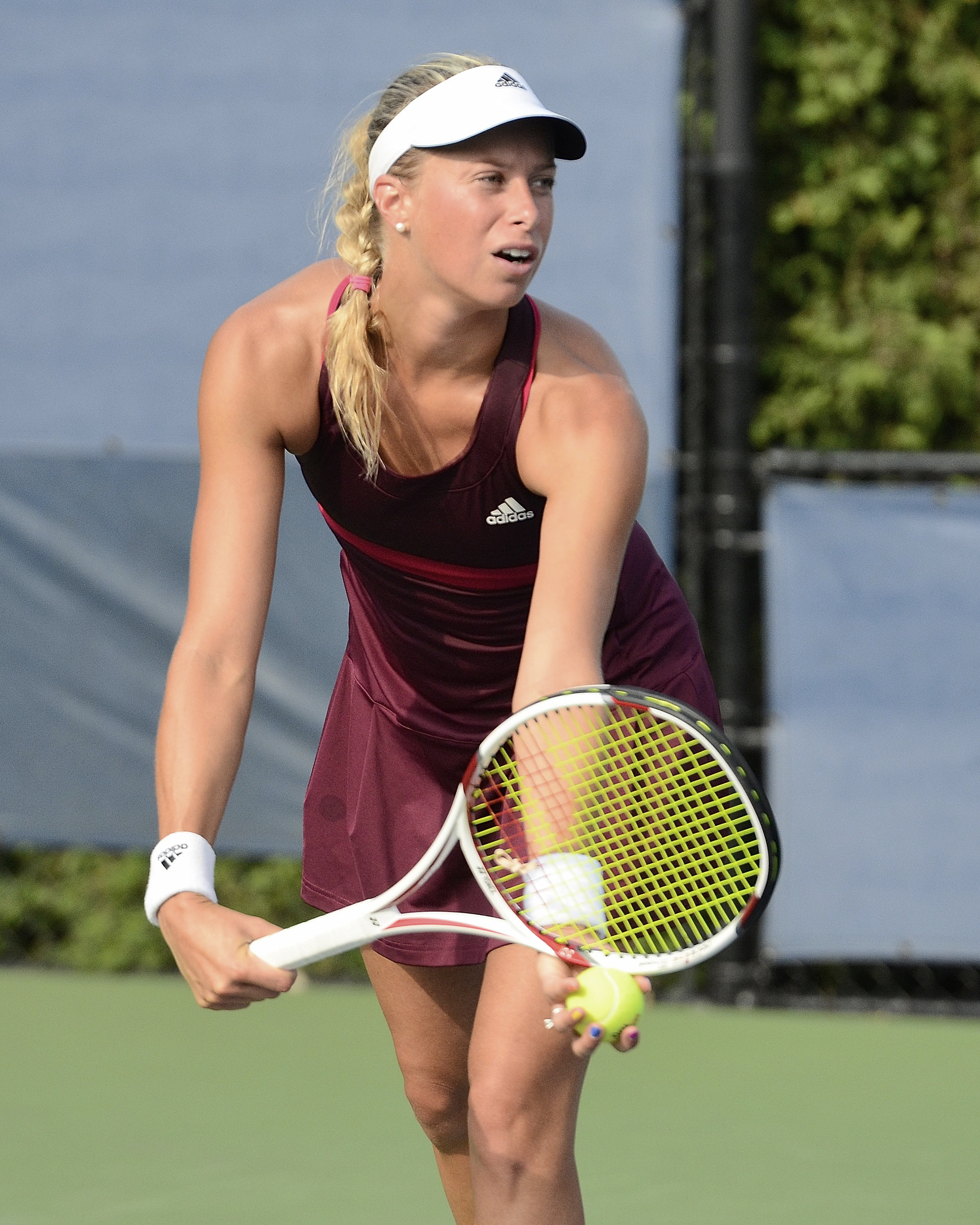 August 21, 2014 Queens, NY Ksenia Pervak (RUS) def. Andrea Hlavackova (CZE) This photo is from two days I went to the qualifying rounds ("the Qualies") for the US Open tennis tournament. There are hundreds more photos to come. (8/23/14)